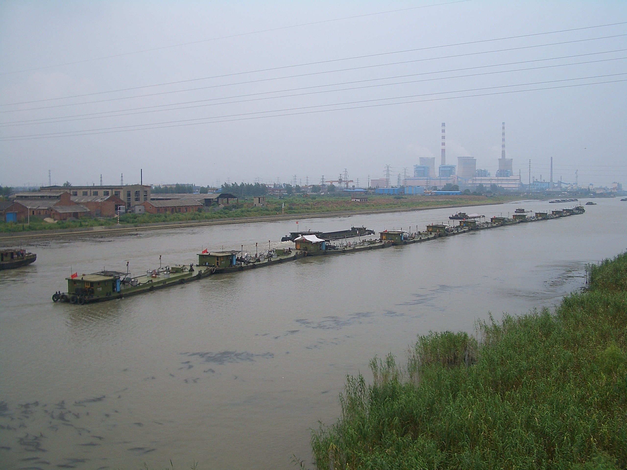 A caravan of barges going north along the modern route of the Grand Canal of China on the eastern outskirts of Yangzhou.